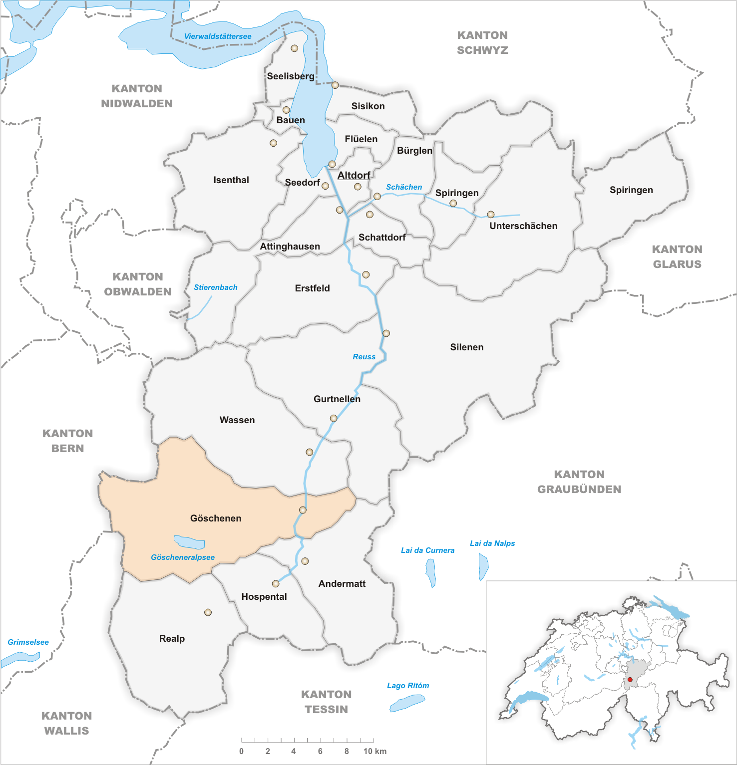 Municipality Göschenen